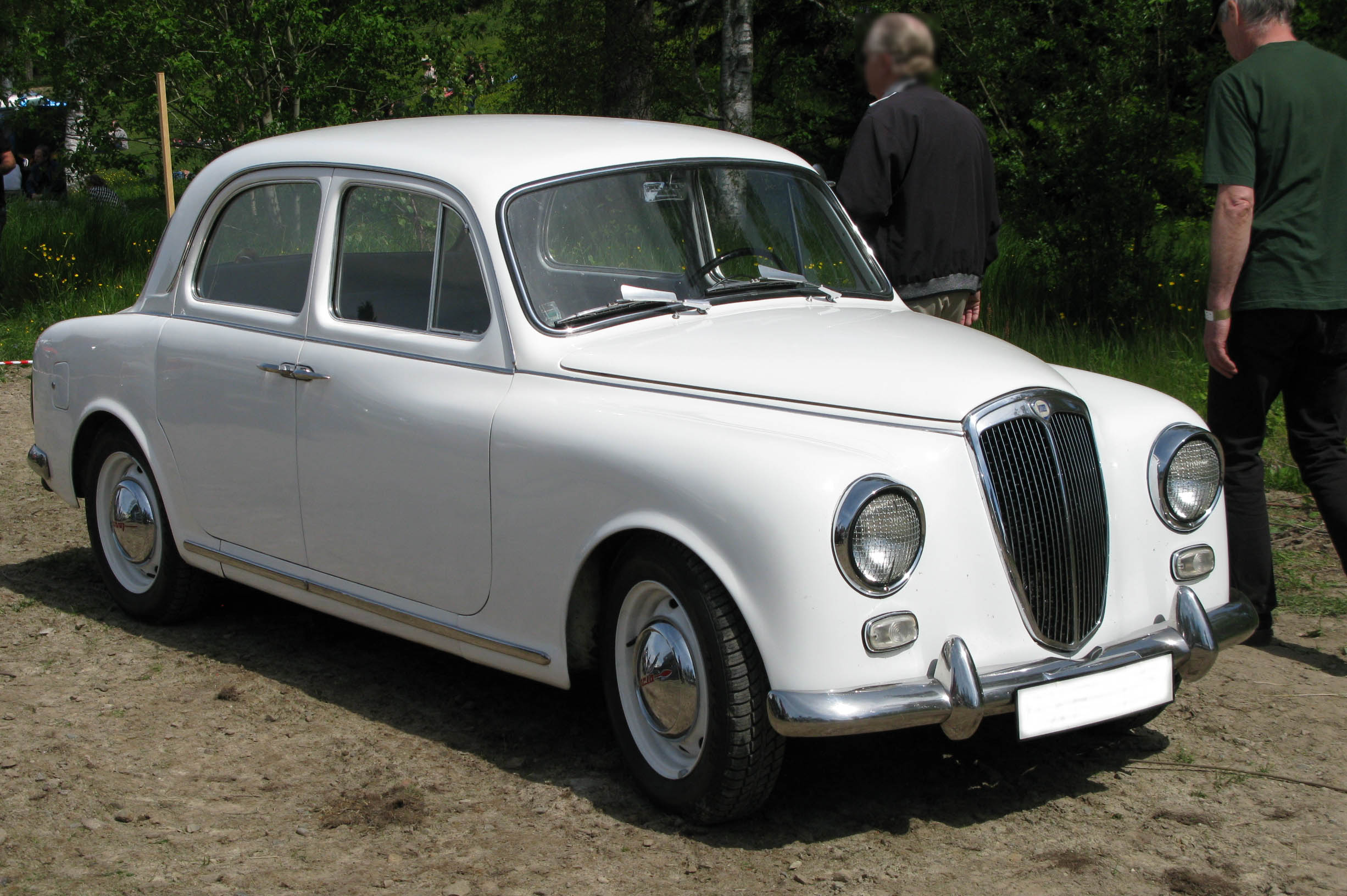 1958 Lancia Appia